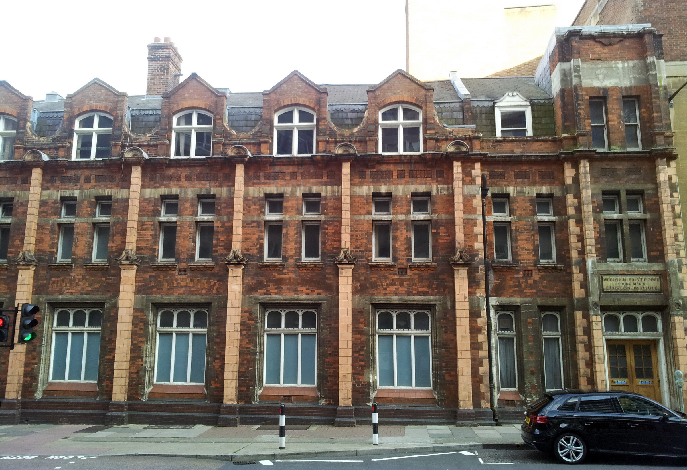 The former Woolwich Polytechnic on Calderwood Street, Woolwich, South East London. The buildings of the Woolwich Polytechnic were used by the University of Greenwich until 2001. They now form the Island Business Centre.